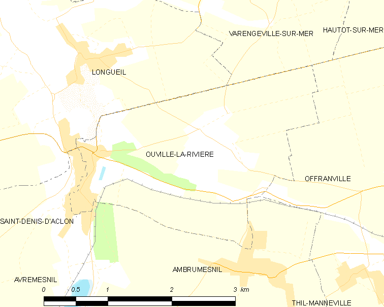 Map of French municipality Ouville-la-Rivière